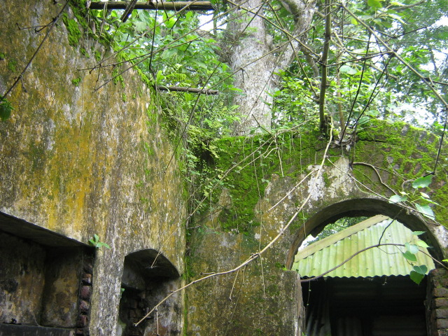 Ruins of the Munshibari mansion in Comilla